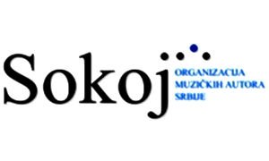 ogasokoja